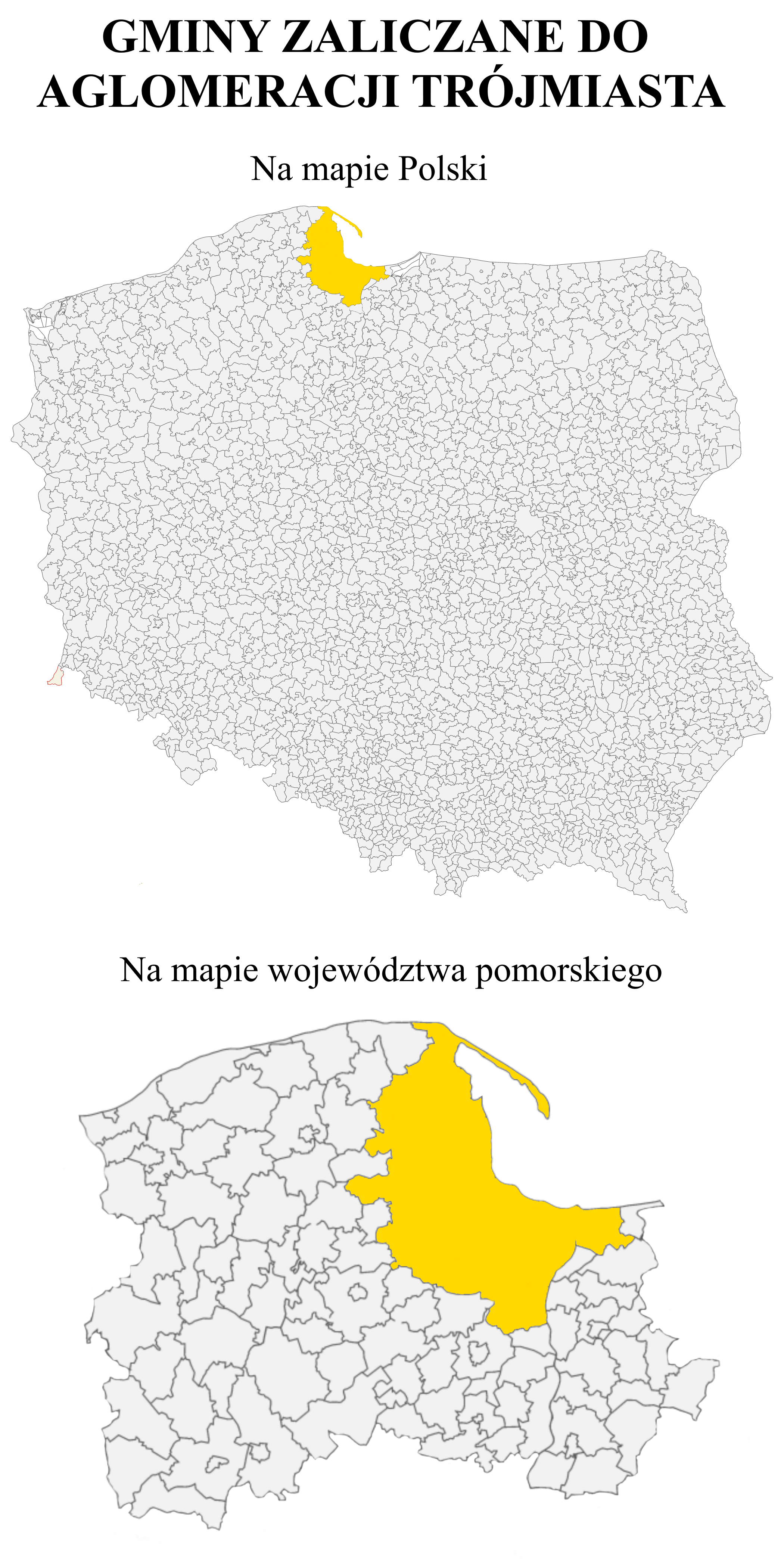 The Tricity Aglomeration shown on a map of Poland and a map of Pomeranian Voivodship